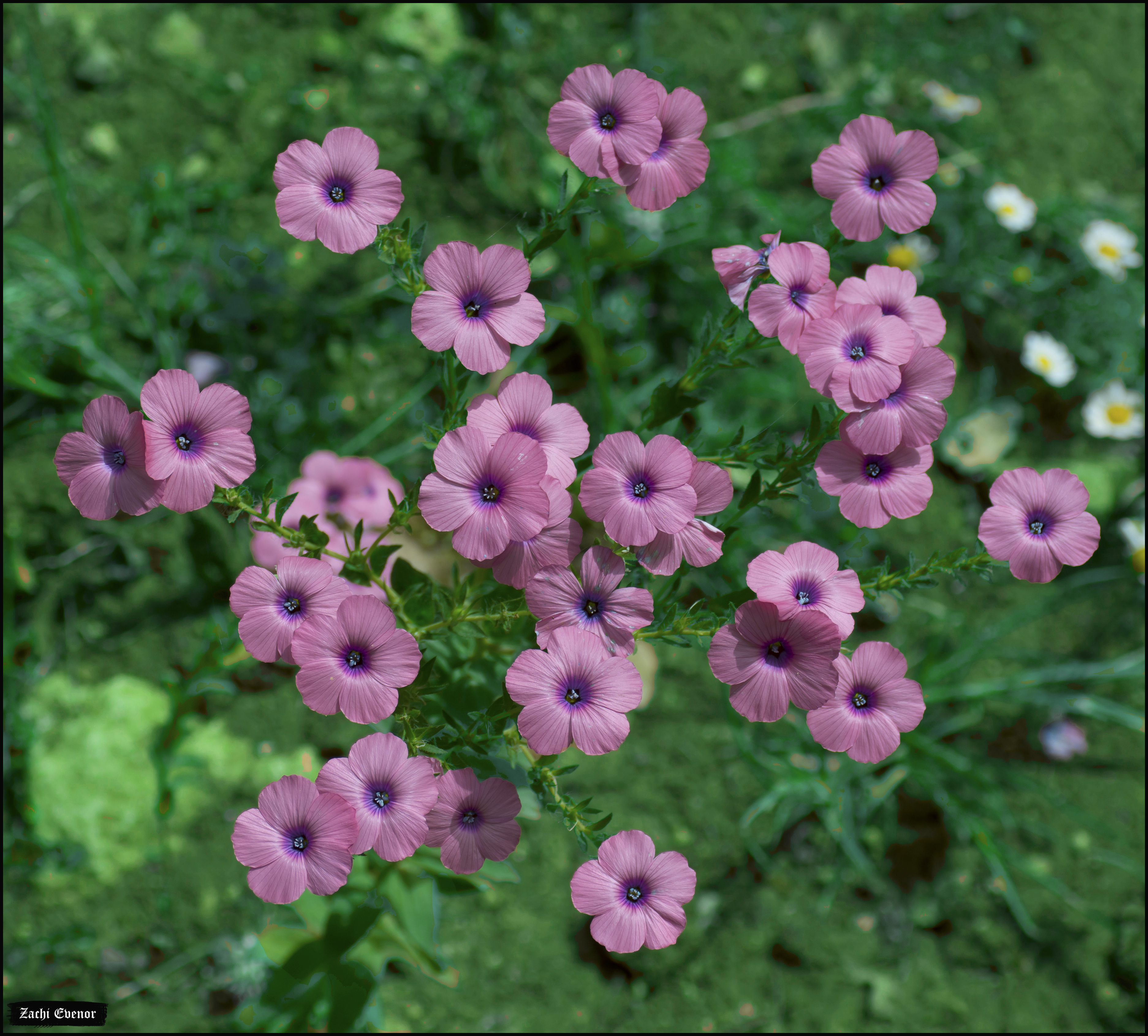 Linum pubescens, Hairy Pink Flax, Southern Carmel Ridge, Israel